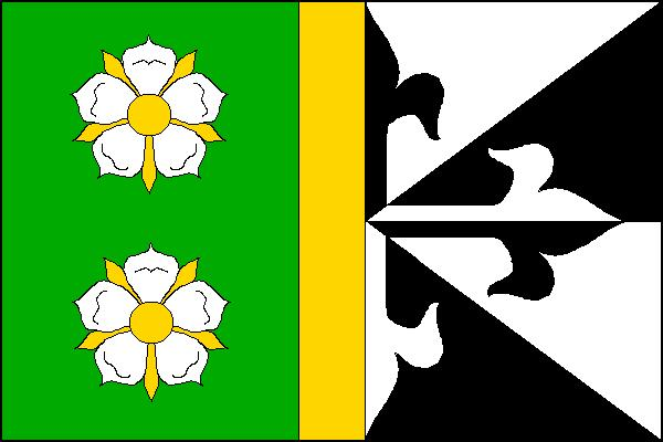 Flag of Kožušany-Tážaly, Olomouc District